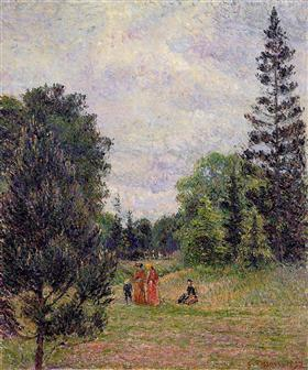 Work by Camille Pissarro